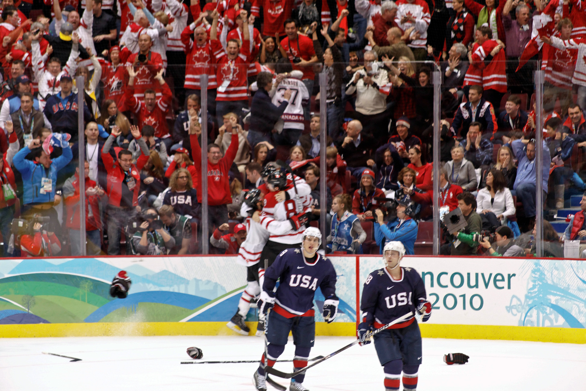 Canada forward Sidney Crosby (#87, white) celebrates with teammates after scoring the gold-medal winning goal in overtime over the United States during the 2010 Winter Olympics